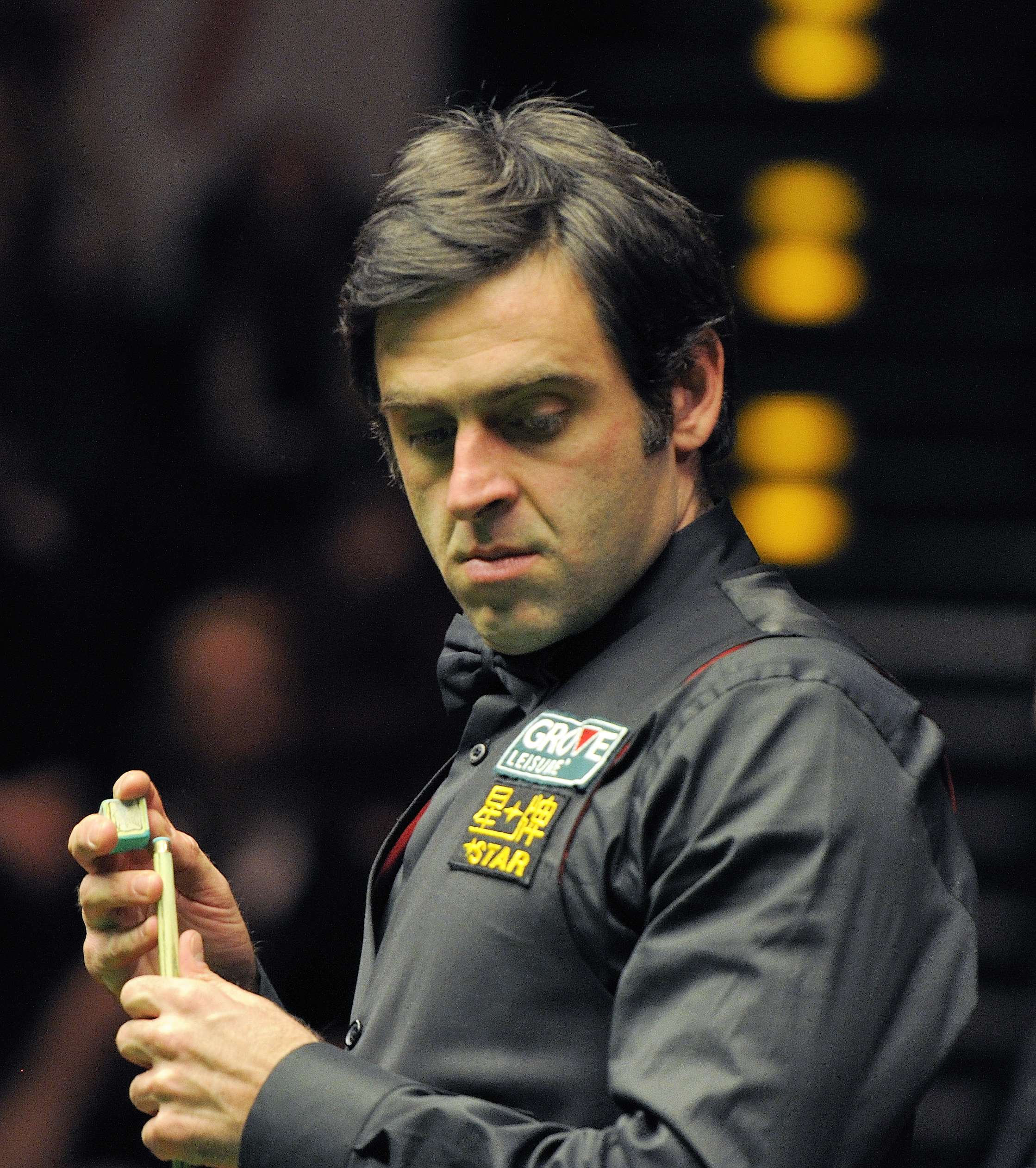 Picture taken in Berlin during the Snooker German Masters in 2011. Ronnie O’Sullivan.